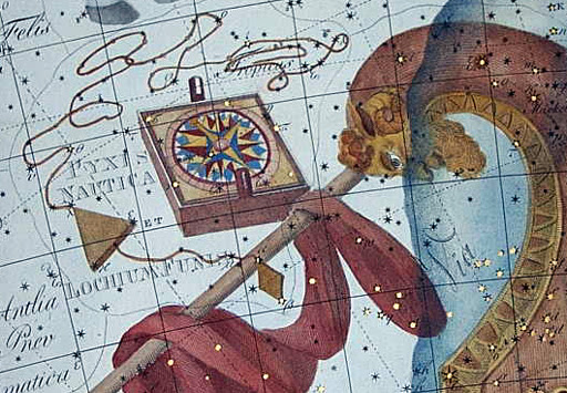 Pyxis Nautica with Lochium Funis in Bode's Uranographia